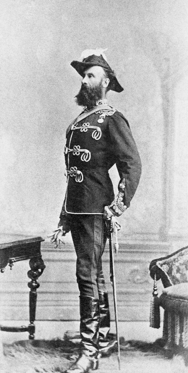 Major-General Thomas Bland Strange in 1871